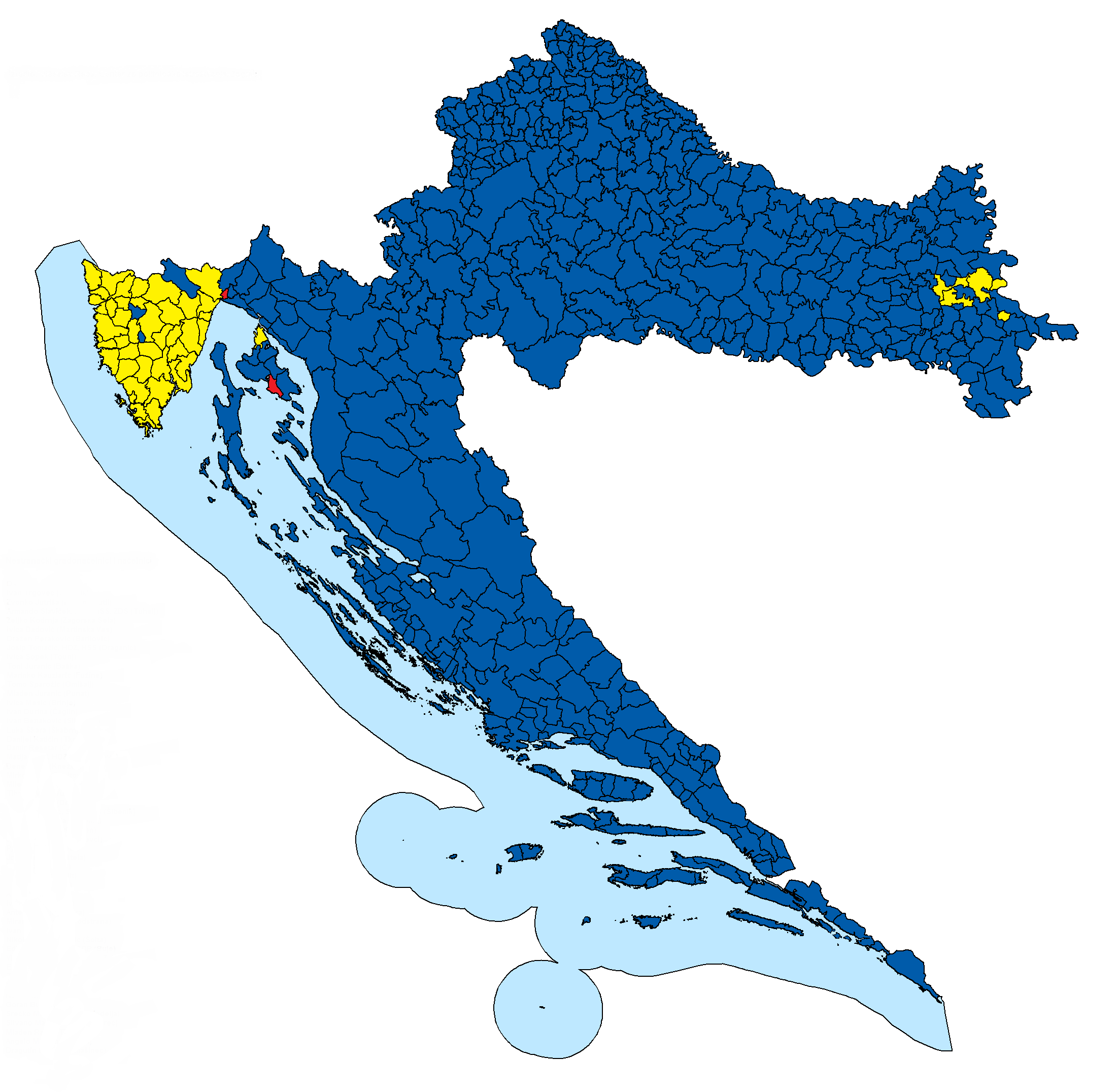 1997 election results for the President of Croatia, based on the majority of votes in each municipality of Croatia (today's borders).